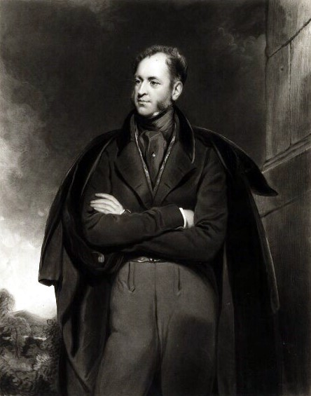 Portrait of Andrew Spottiswood(e) (1787–1866), British Member of Parliament.